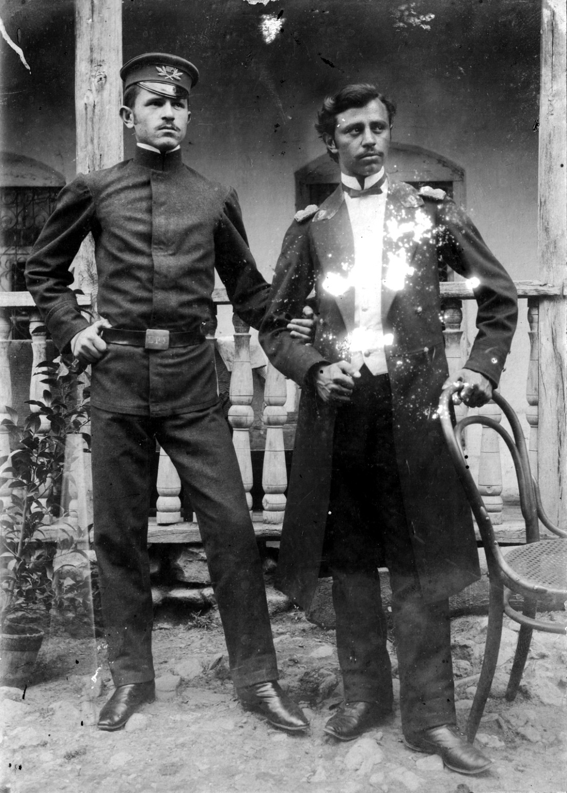 Azerbaijani composer Uzeir Hajibeyli and his brother Jeyhoun